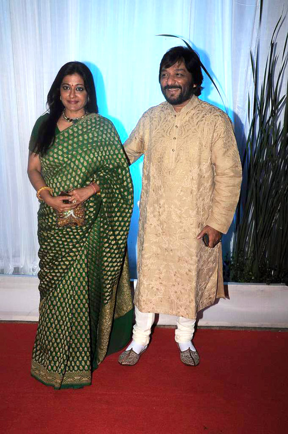 Sunali Rathod and Roop Kumar Rathod at Esha Deol's wedding reception